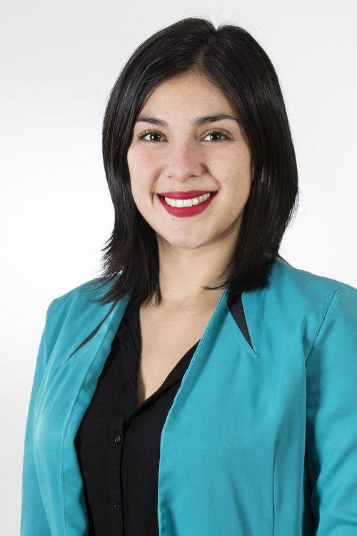 Karol Aída Cariola Oliva en la fotografía oficial de diputados periodo 2018-2022. (Fotos: Christel Andler, René Lescornez, Johanna Zárate)